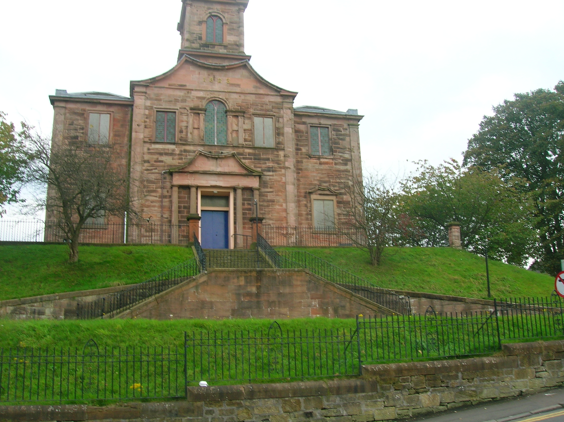 The Hill of Judgement at Riccarton, Riccarton parish kirk, East Ayrshire, Scotland. Roger Griffith. 20 October 2007.